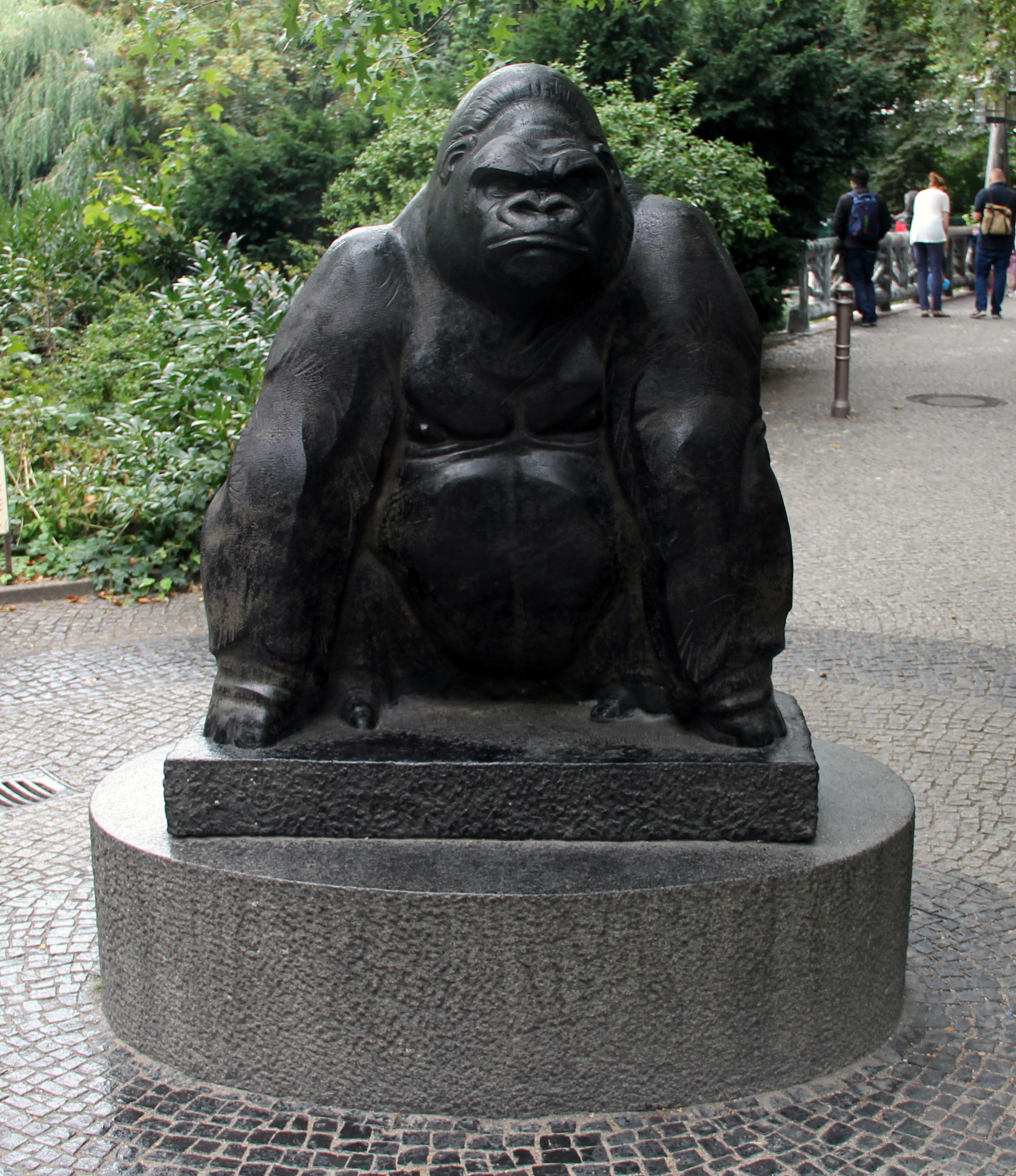 Sculpture, "Bobby" by Fritz Behn, 1936, Hardenbergplatz 8, Berlin-Tiergarten, Germany